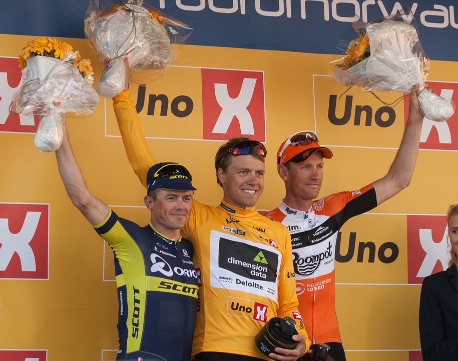 General classification winners: Simon Gerrans (2nd), Edvald Boasson Hagen (1st), Pieter Weening (3rd).